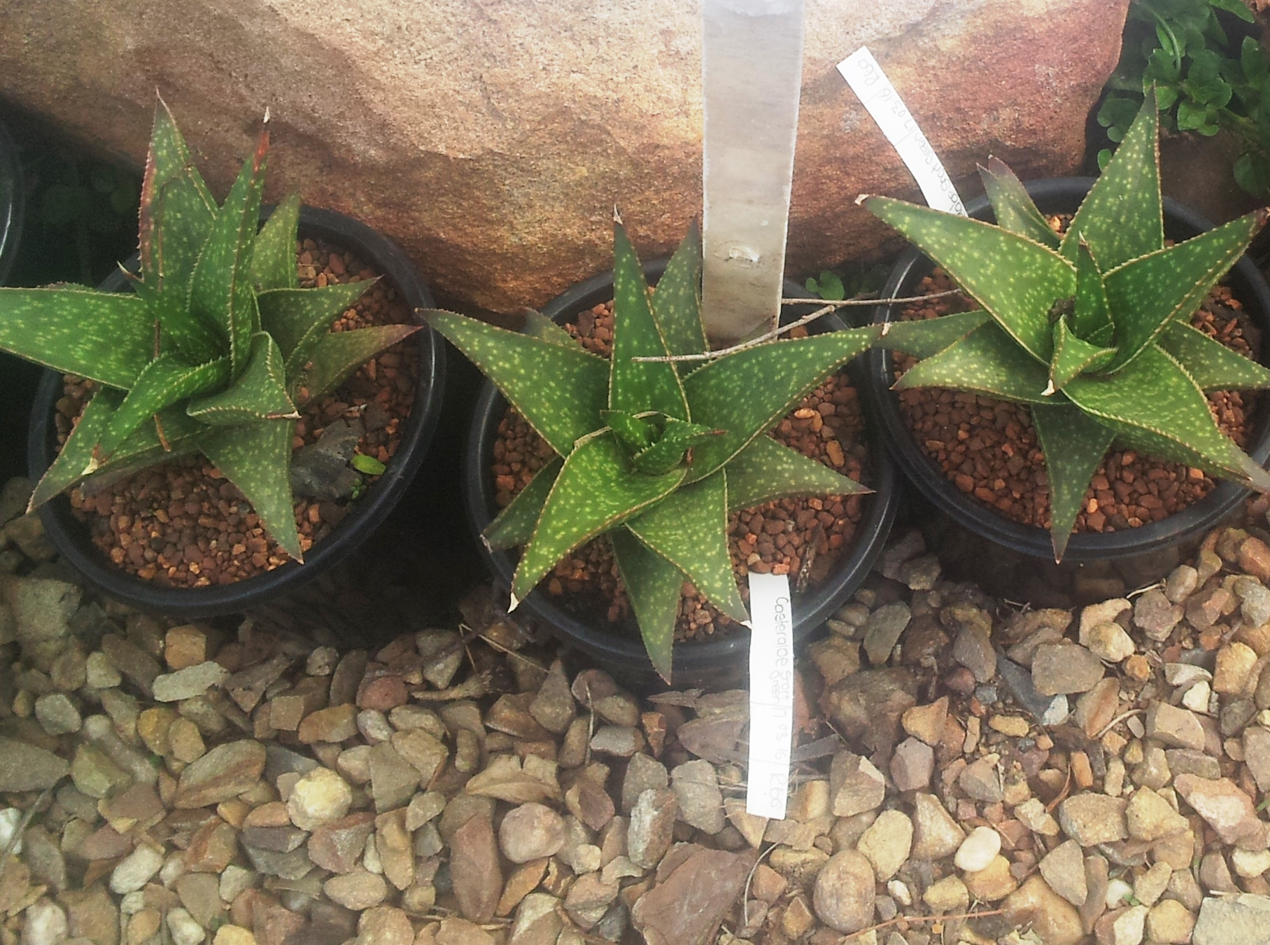 Gasteraloe Short Green - Cape Town